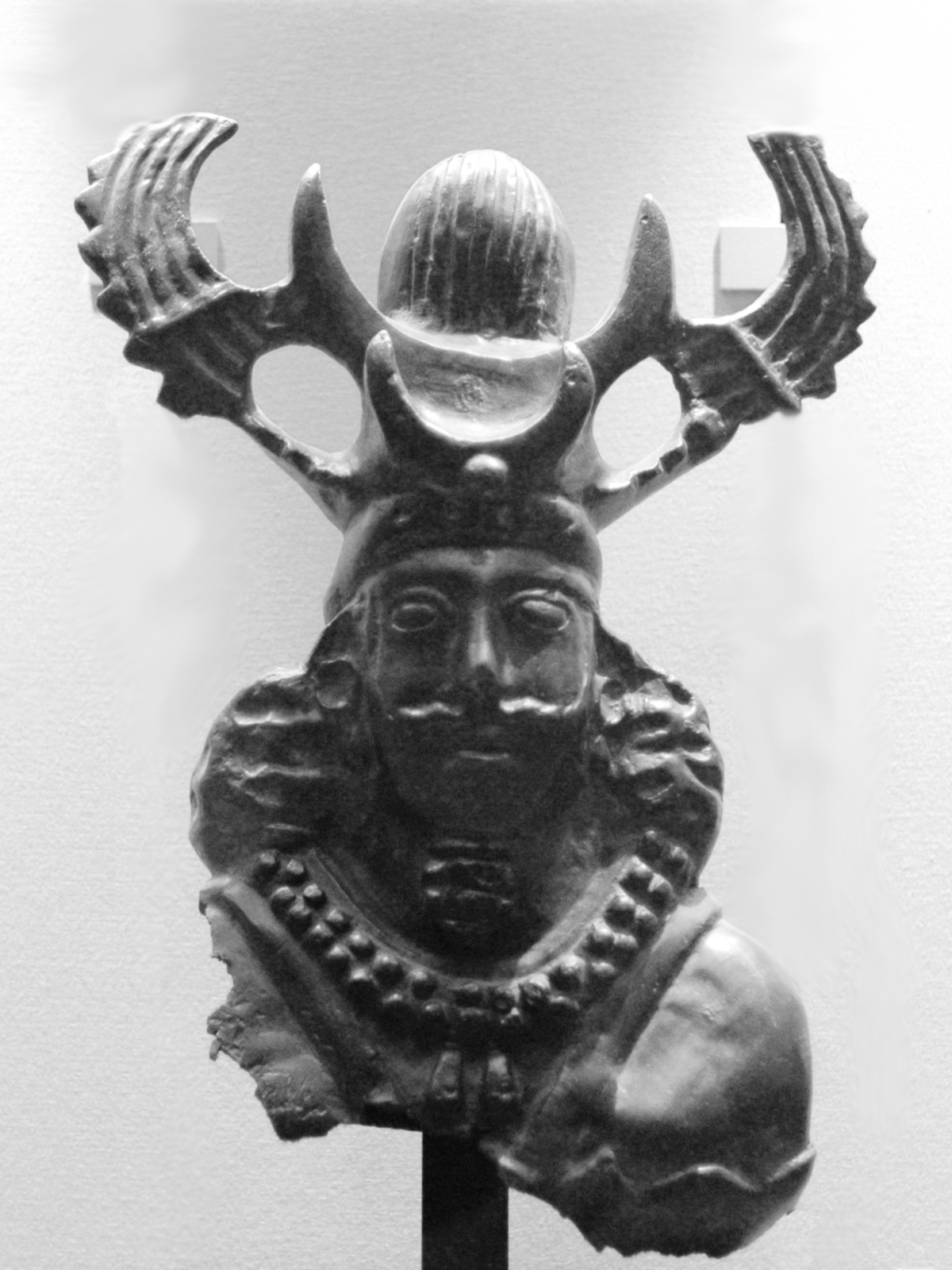 Bust of a Sassanid king. Bronze, 5th–7th century AD, found in Ladjvard, Mazandaran.